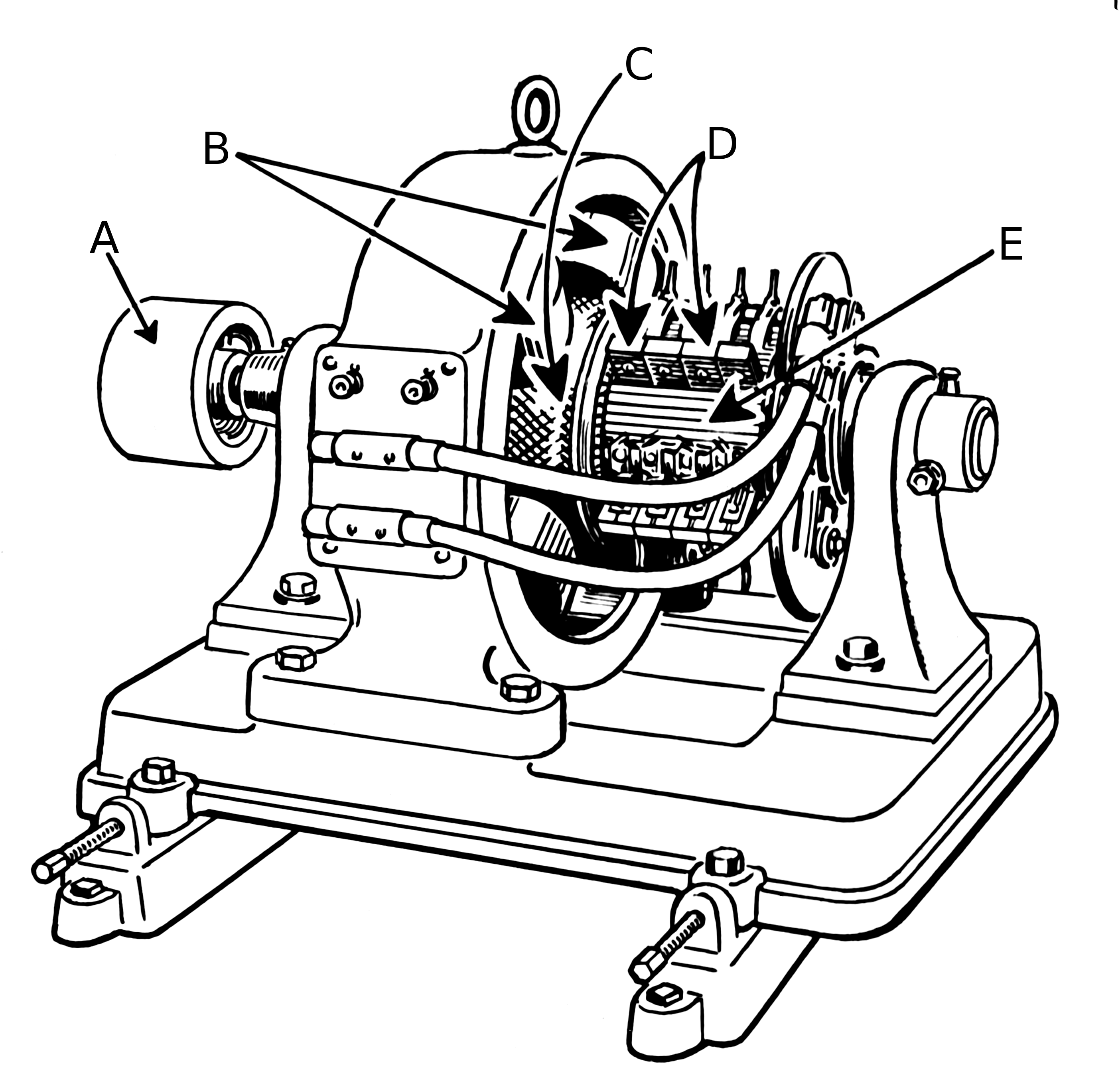 Dynamo